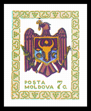 Stamp of Moldova